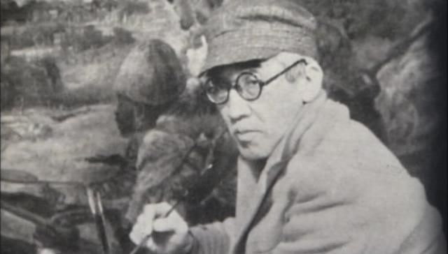 Co-president of the Army Art Association (former the Great Japanese Imperial Army War Painters Association) Fujita Tsuguharu, 1942.